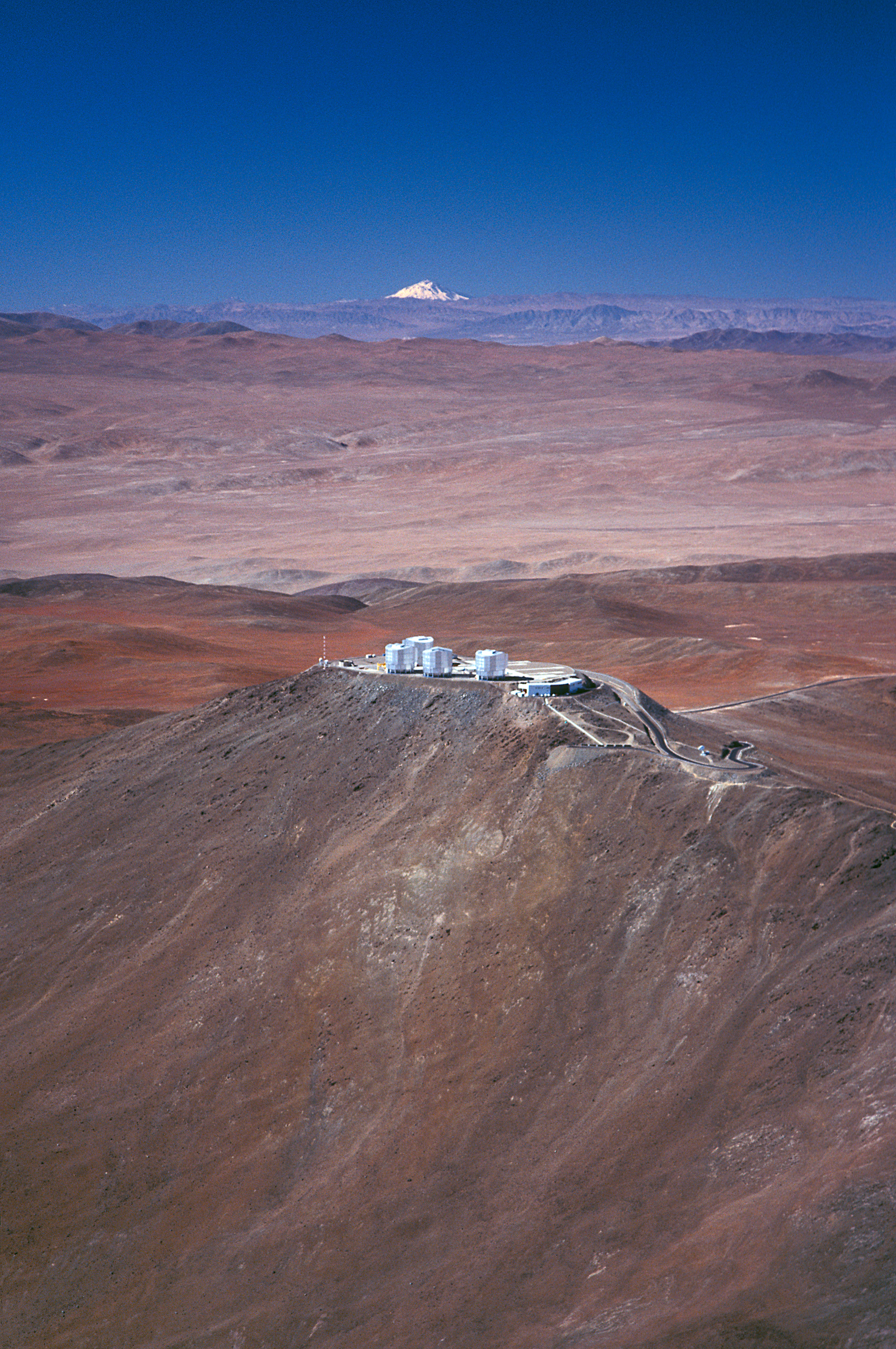 This marvellous aerial photograph of the home of ESO’s Very Large Telescope (VLT), fully demonstrates the superb quality of the observing site. In the foreground we see the Paranal Observatory, located at an altitude of 2,600 metres on mount Paranal in Chile. In the background we can see the snow-capped, 6,720 meter-high volcano Llullaillaco, located a mind-boggling 190 km further East on the Argentinean border. This image is a testimony of the magnificent quality of the air and the ideal conditions for observing at this remote site. Clearly visible in the image are the domes of the four giant 8.2-metre Unit Telescopes of the VLT, with the Control Building, where astronomers carry out the observations, in the foreground. Taken several years ago, this photograph does not show the Auxiliary Telescopes nor the dome of the soon to come VST Survey Telescope.